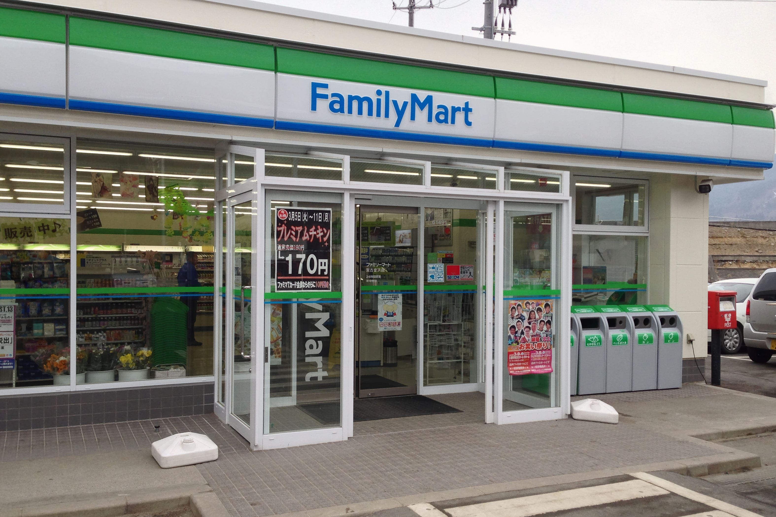 Windbreak room at FamilyMart Miyako Kanehama Store in Miyako, Iwate, Japan